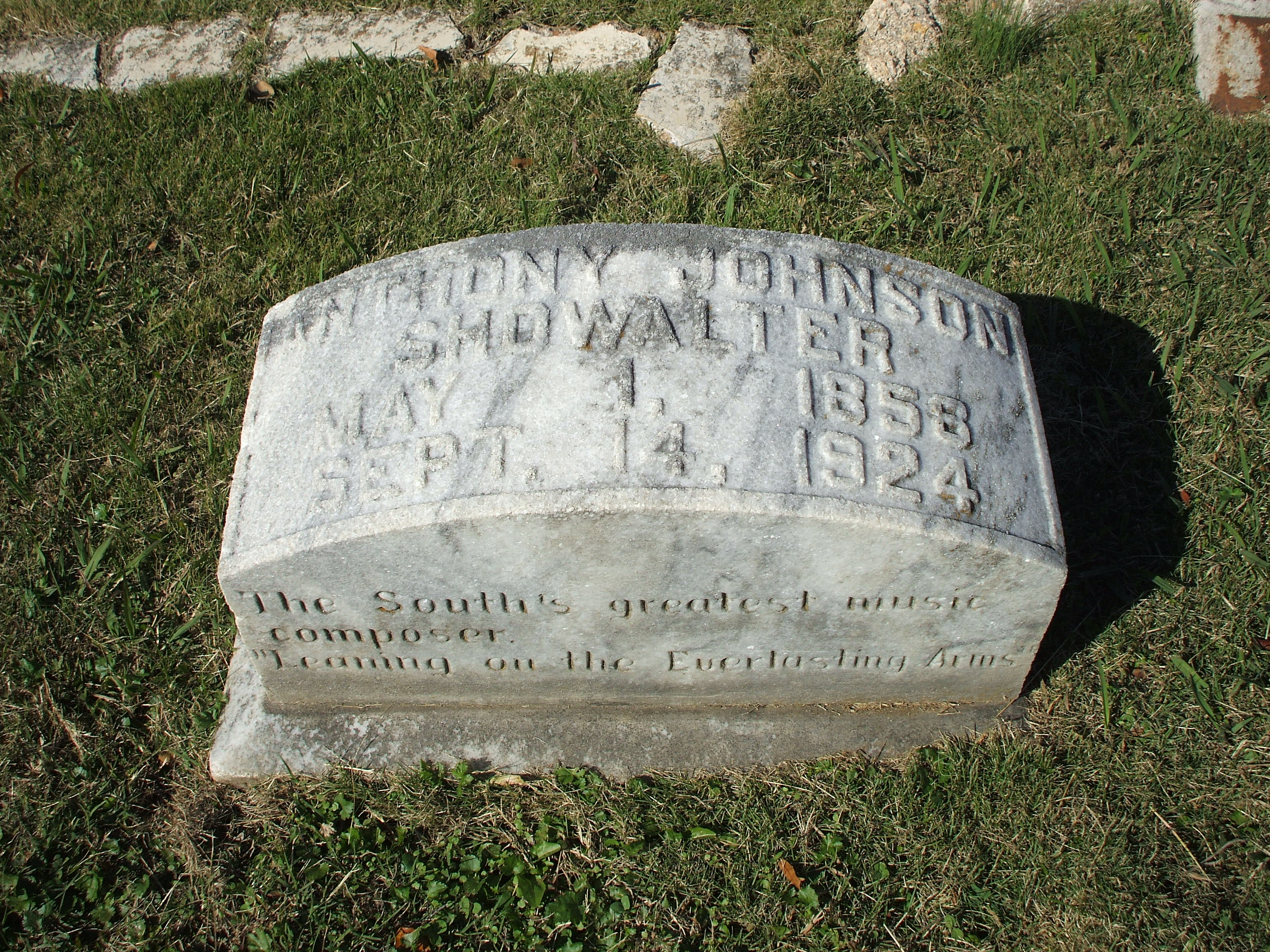 Burial at West Hill Cemetery, Dalton, Georgia.